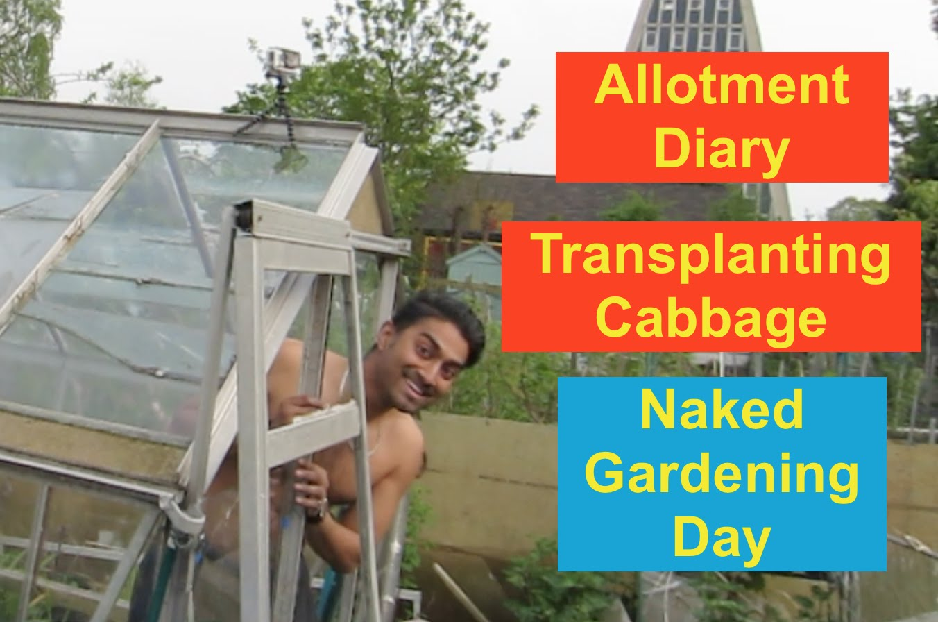 Gardener celebrating World Naked Garden Day. The graphic is on top of a Youtube gardening video. The Youtube video is licensed under CC-BY: Creative Commons - YouTube Help CC-BY.